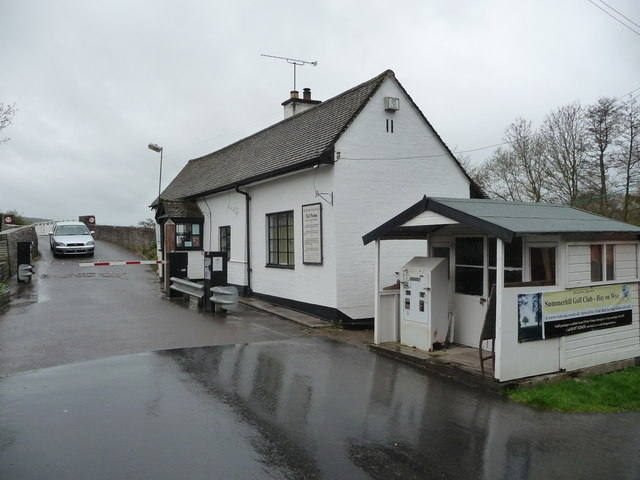 The toll house, Whitney-on-Wye tollbridge